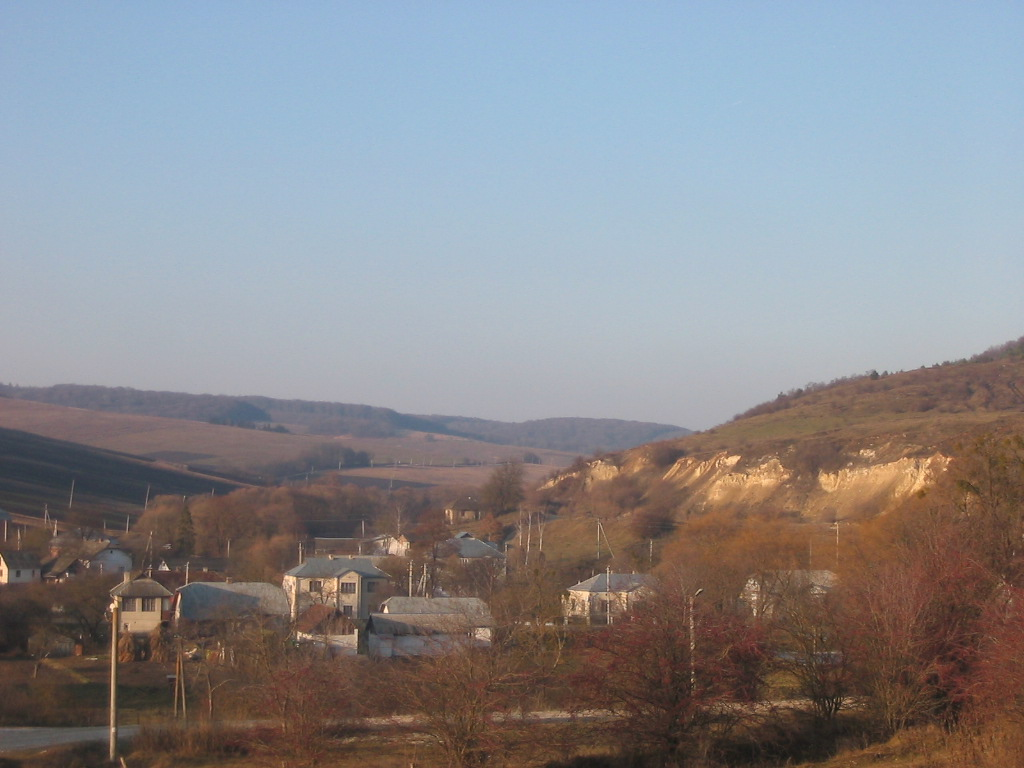 Panorama of Pidvysoke, nearby Berezhany, west Ukraine